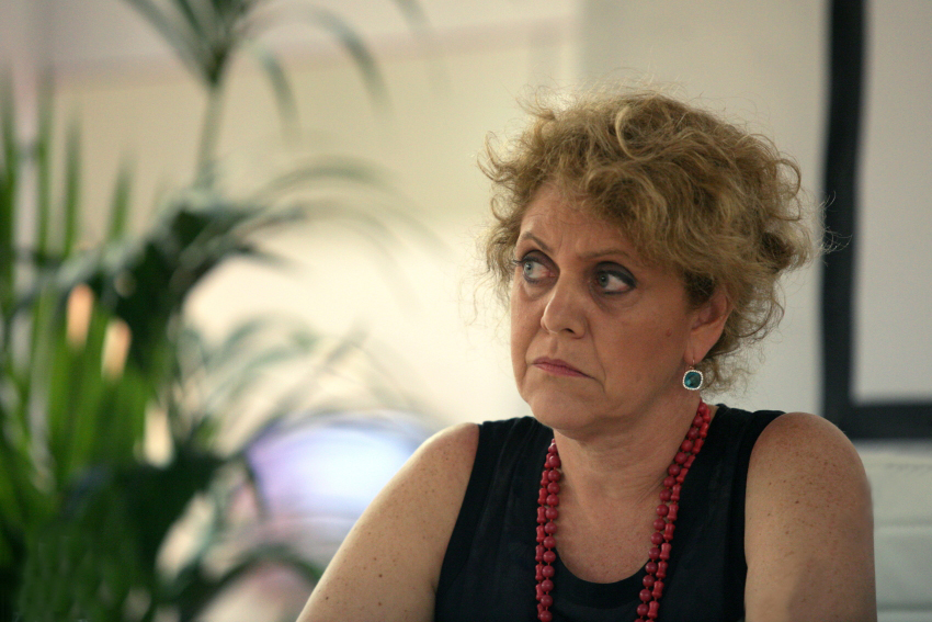 Paola Caridi, journalist and writer